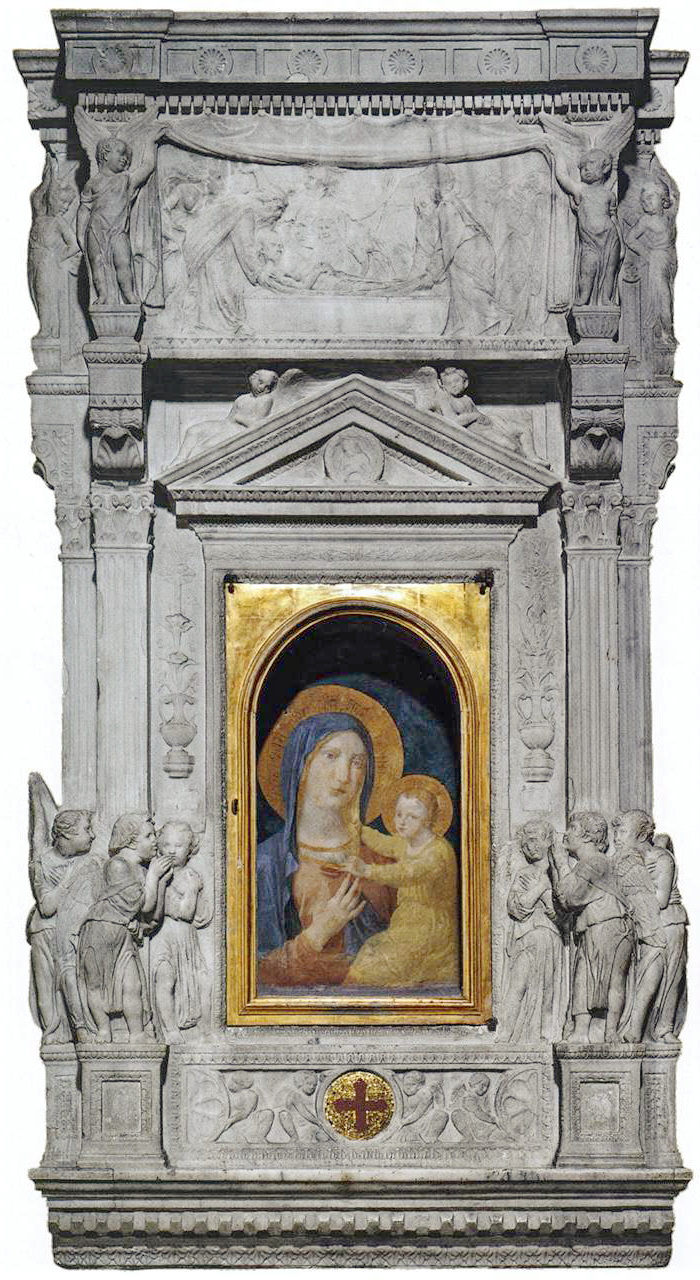 Ciborium 1432-33 Marble Basilica di San Pietro, Rome